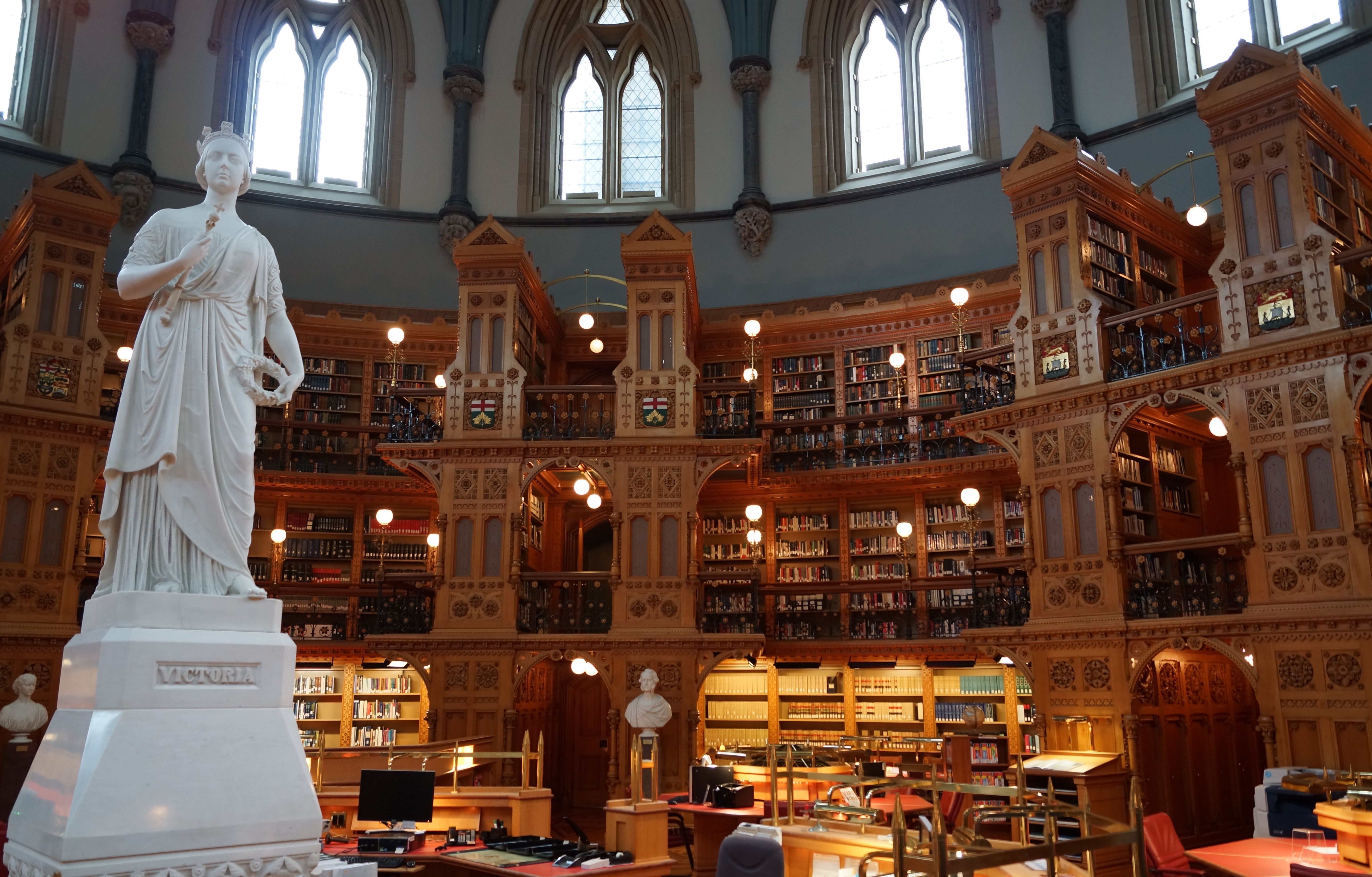 The interior of the Library of Parliament in April 2017.